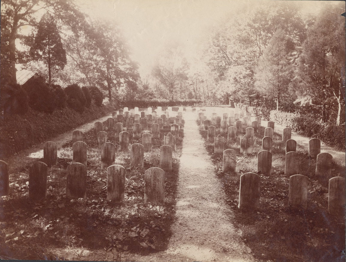 Jesuit Community Cemetery at Georgetown University in its original location, near the present-day Maguire Hall